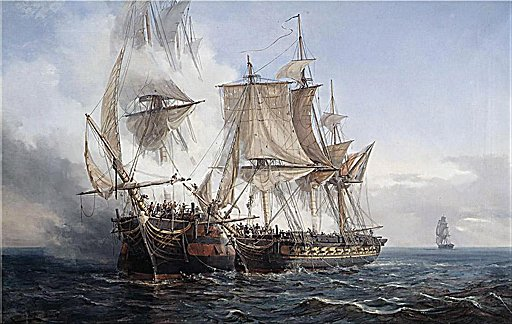 Capture of the East Indiaman Lord Nelson by the French privateer Bellone, under Jacques François Perroud, on 14 August 1803